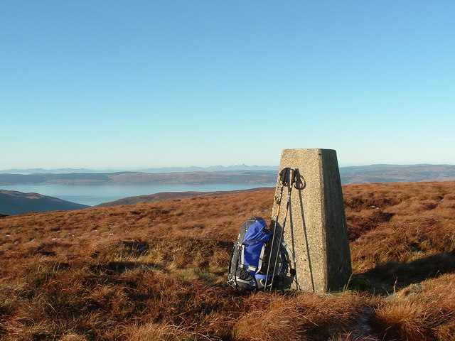 Fionn Bhealach Looking towards Jura from the summit of Fionn Bhealach.